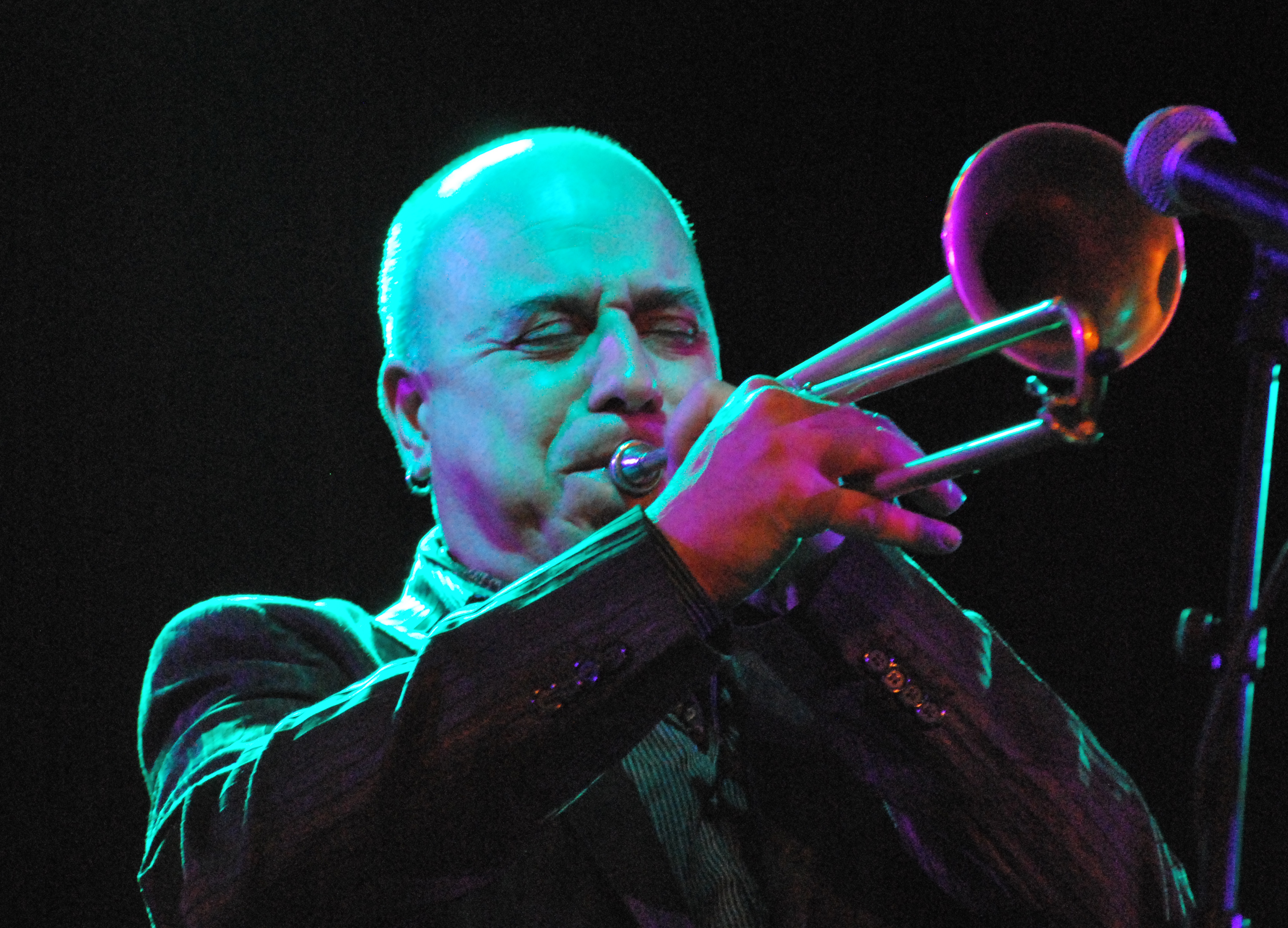 Steven Bernstein at a concert with Sex Mob. Treibhaus Innsbruck 2010